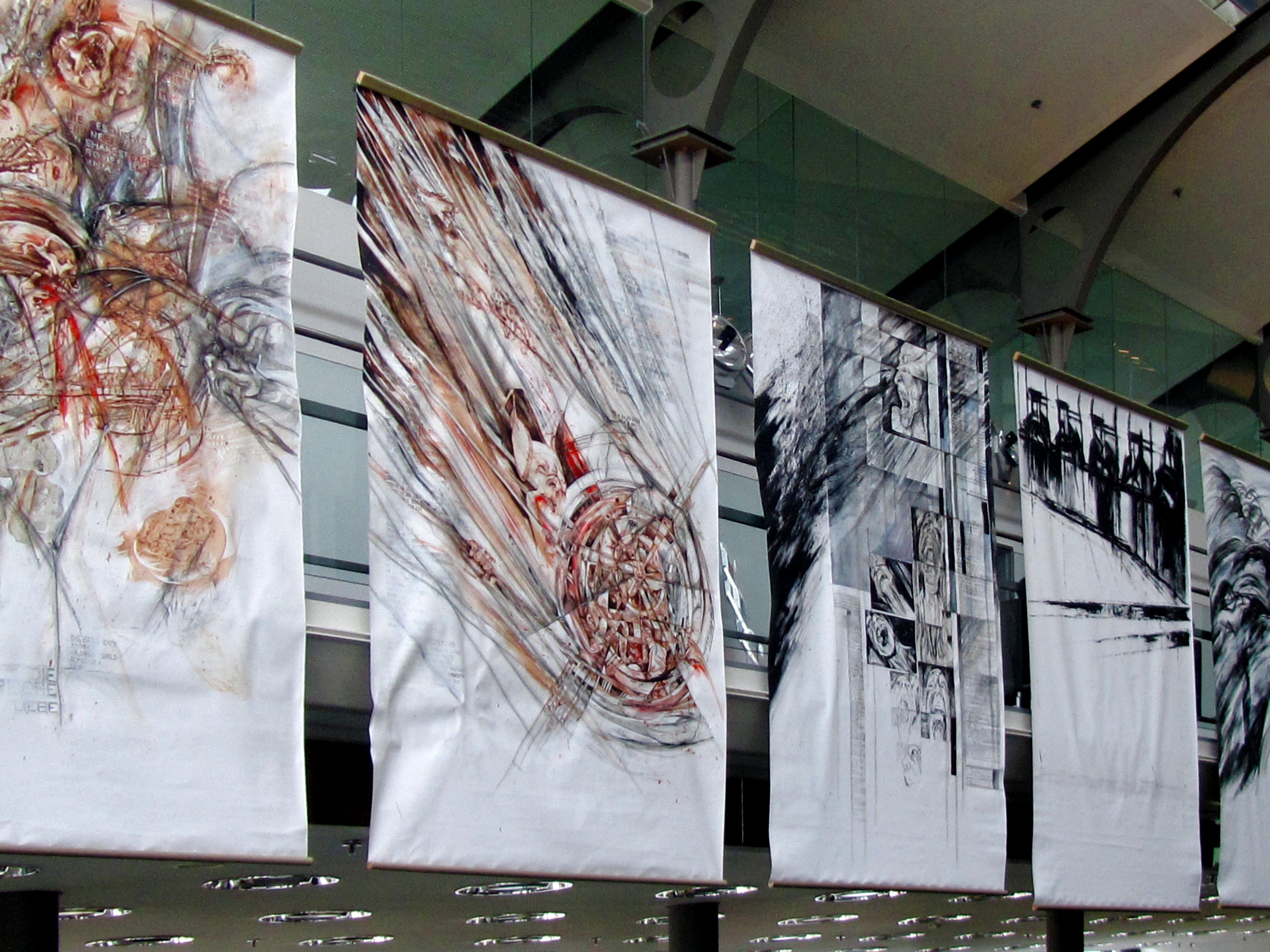 Ivana Koubek, Paintings Bernauerin, HypoVereinsbank, Exibithion 2015